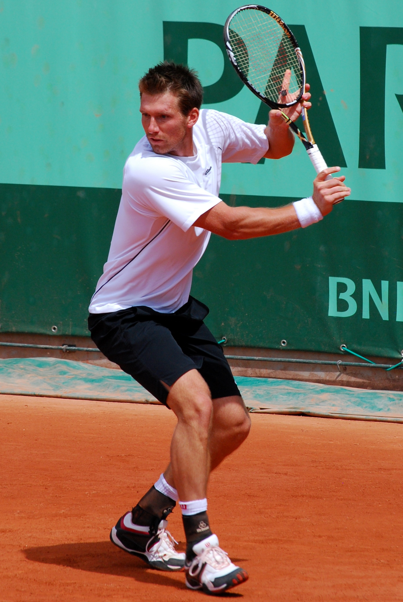 2nd round doubles match with Christopher Kas, against Marc Lopez & David Marrero. Kas & Peya won 6-4, 7-6. Roland Garros 2011.